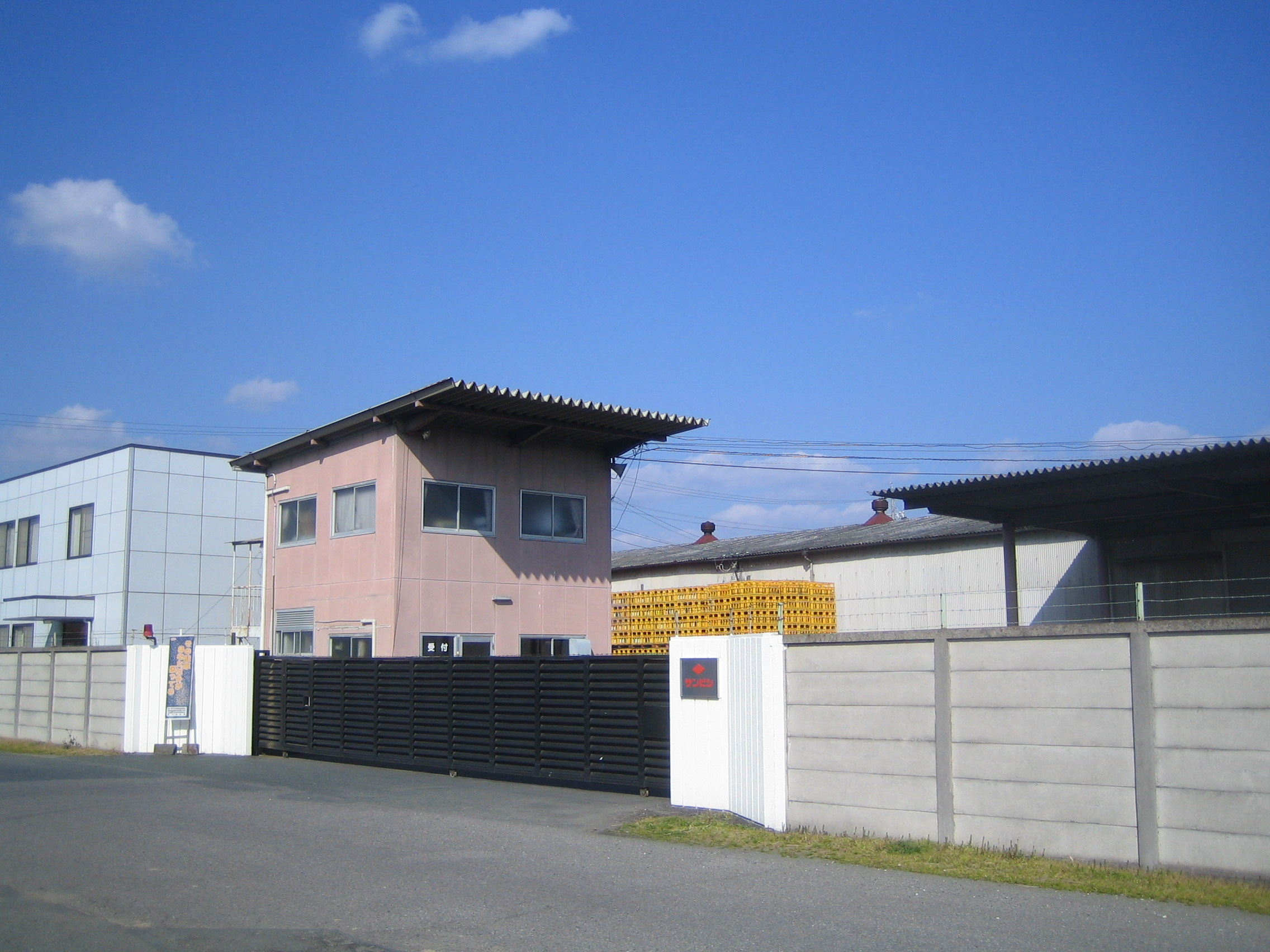 The former Sanbishi (サンビシ株式会社), in Kozakai, Aichi, Japan